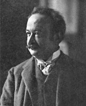 Oscar Blumenthal (1852-1917)